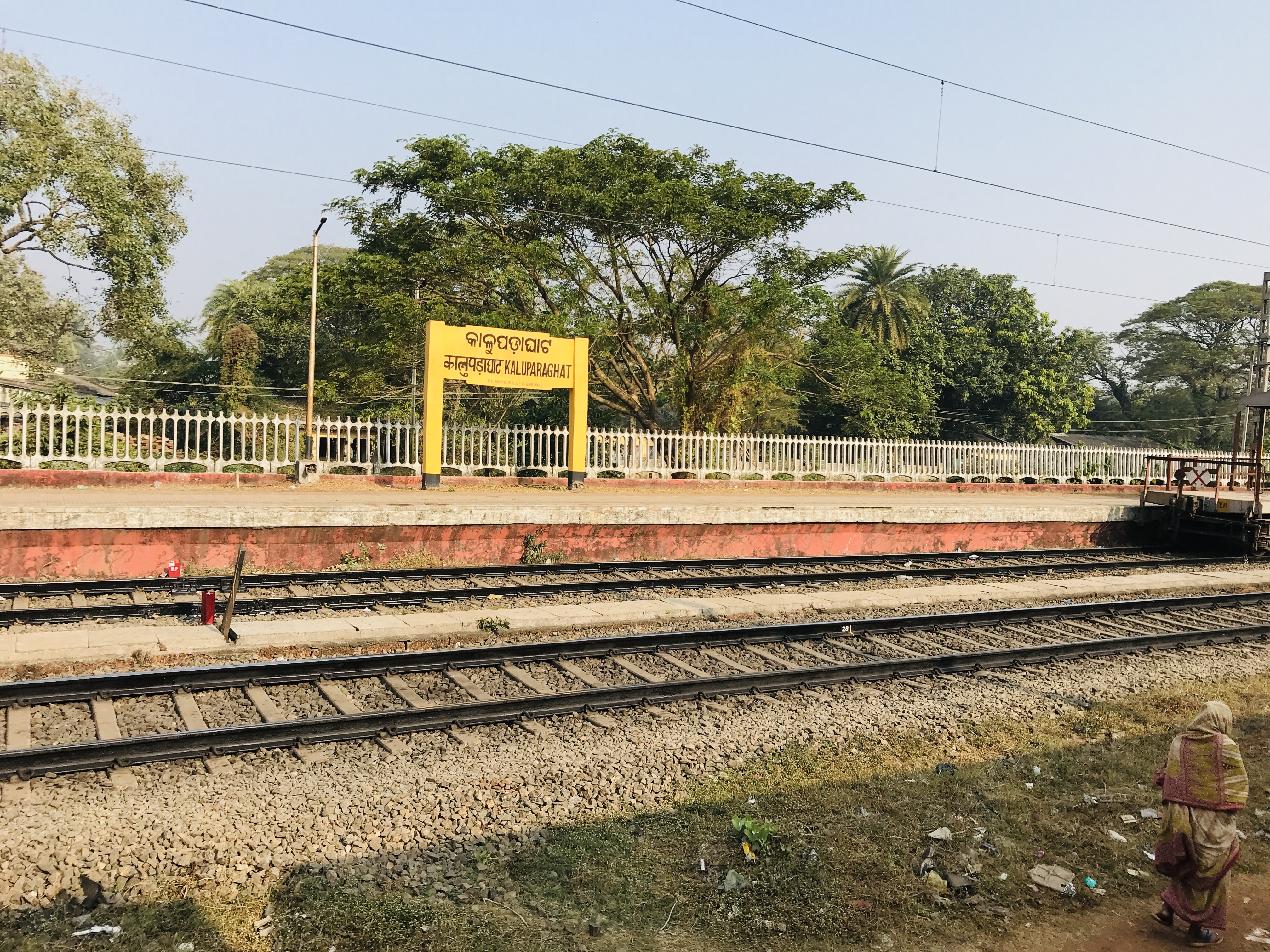 Kaluparaghat railway station name board